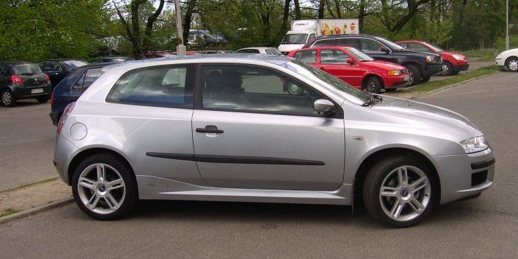 Fiat Stilo Racing 2004 colour:Grigio Techno